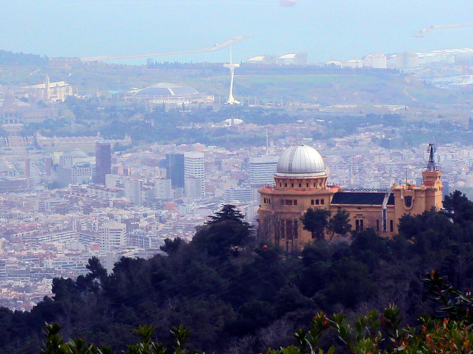 Fabra observatory in Barcelona, next to the Tibidabo